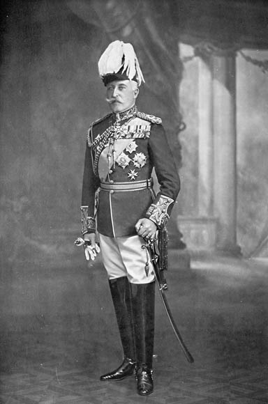 His Royal Highness the Duke of Connaught